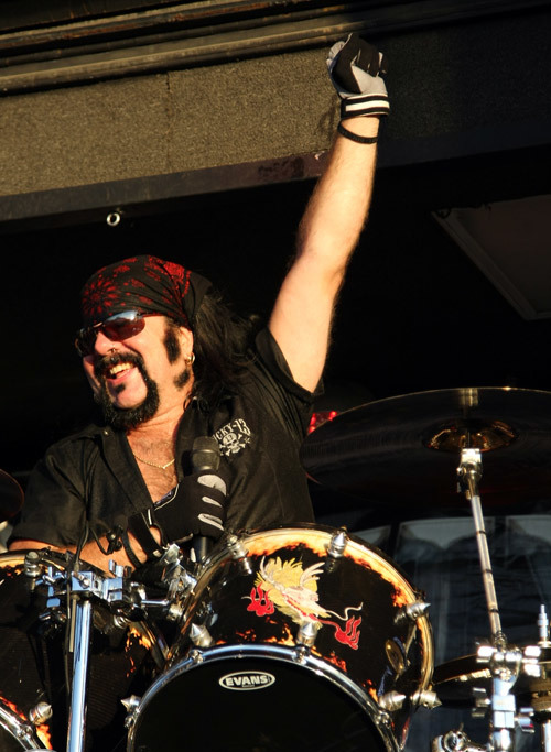 Vinnie Paul, drummer of Hellyeah, in concert at Uproar Festival in Vancouver